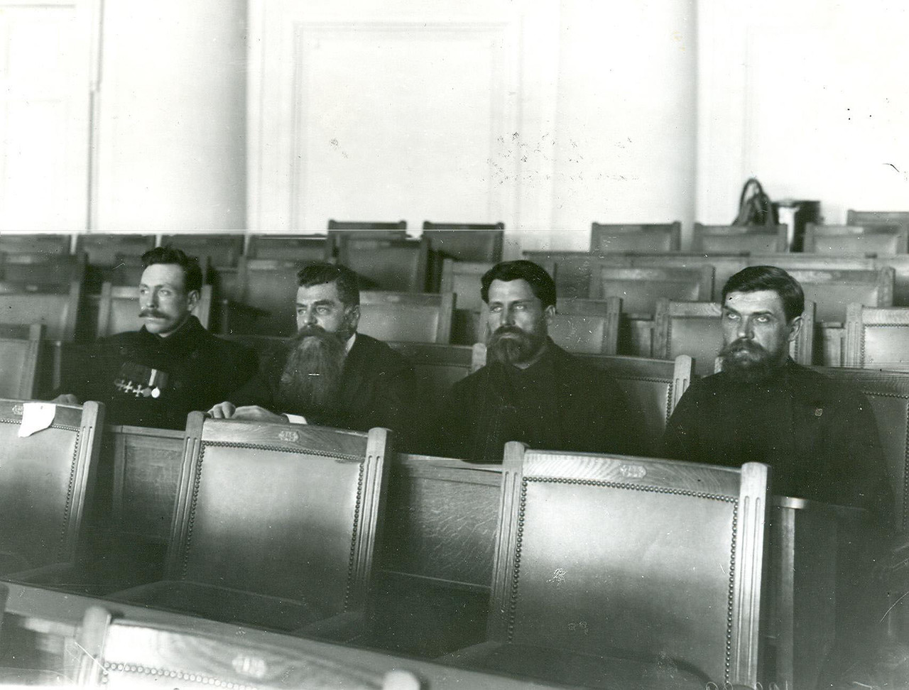 The members of the second Russian State Duma from Orel Governorate, 1907. (Mitrofan Karpov, Mikhail Stahovich, Nikolai Shvedchikov, Aleksandr Chernikov)